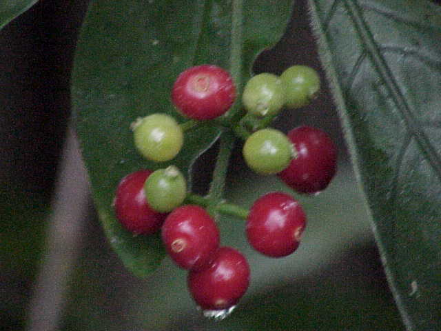 Species: Cephaelis acuminata Family: Rubiaceae Image No. 1